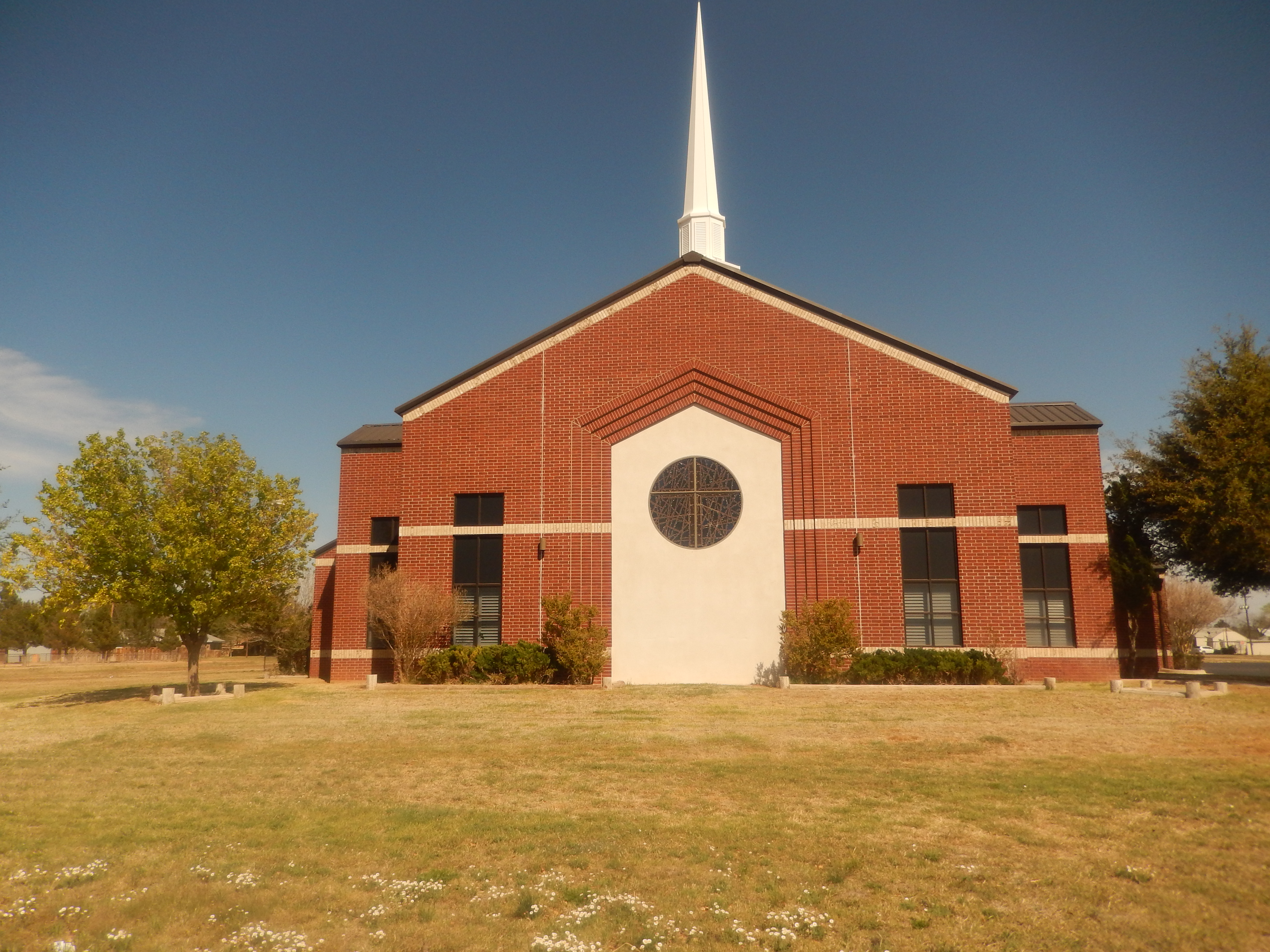 I took photo with Nikon camera of First Baptist Church of Crane, TX.